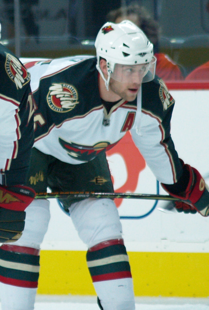 Nick Schultz during a pregame warmup against the Calgary Flames